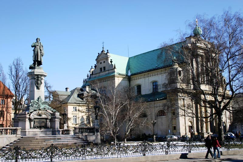 Monument to Adam Mickiewicz and Kościół Seminaryjny (Seminar Church) in Warsaw (Poland), added with permission of the authors - Marek and Ewa Wojciechowscy [1]